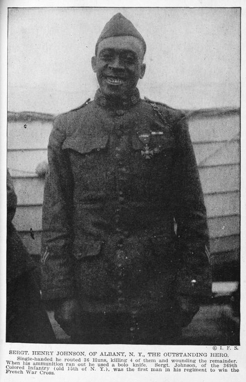 Sergeant Henry Lincoln Johnson, 369th Infantry ("Harlem Hellfighters"), who single-handedly fought off a german raiding party to save his comrade, Private Needham Roberts, 1918.